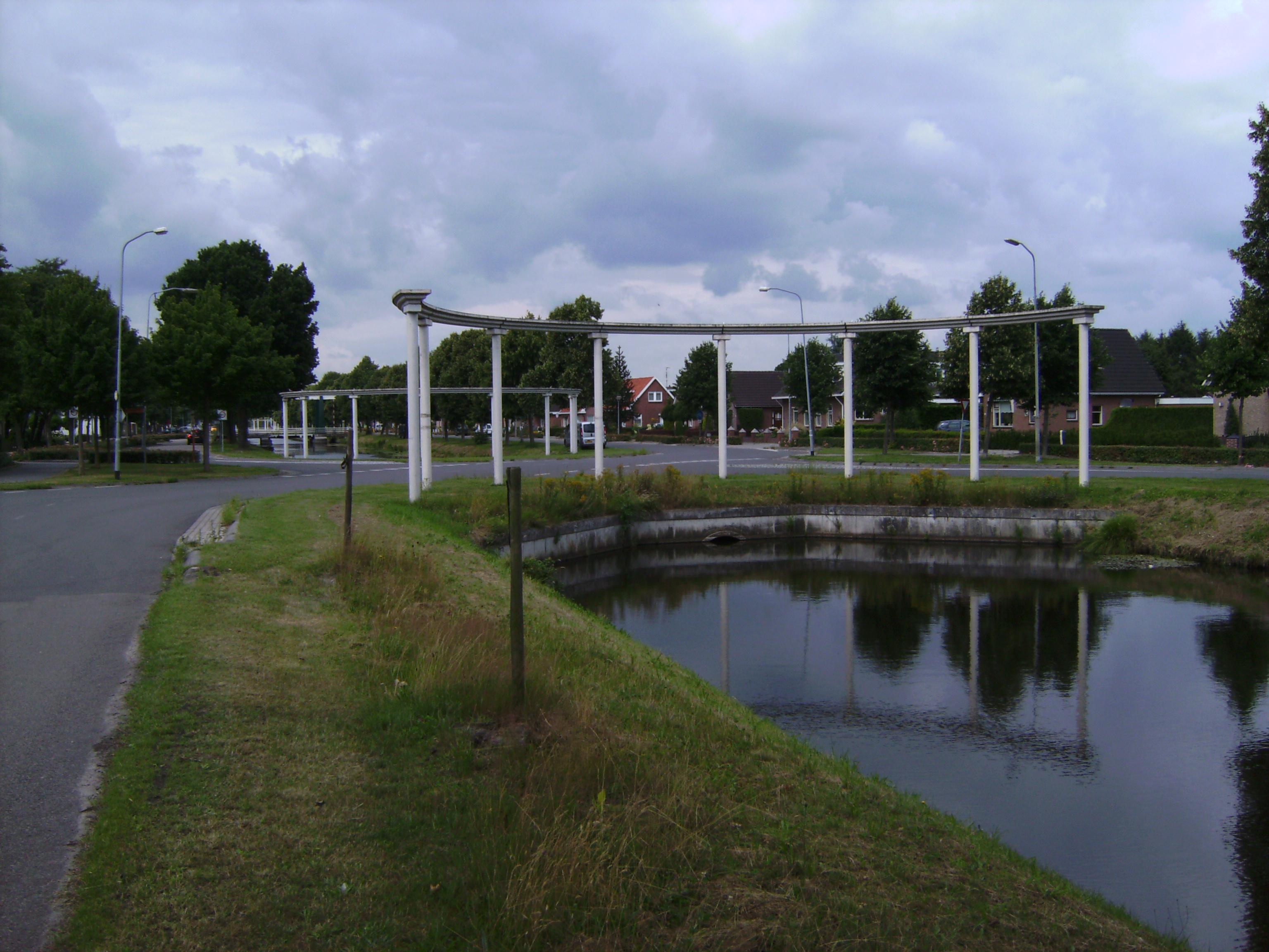 Zwartemeer, modern art in the streets